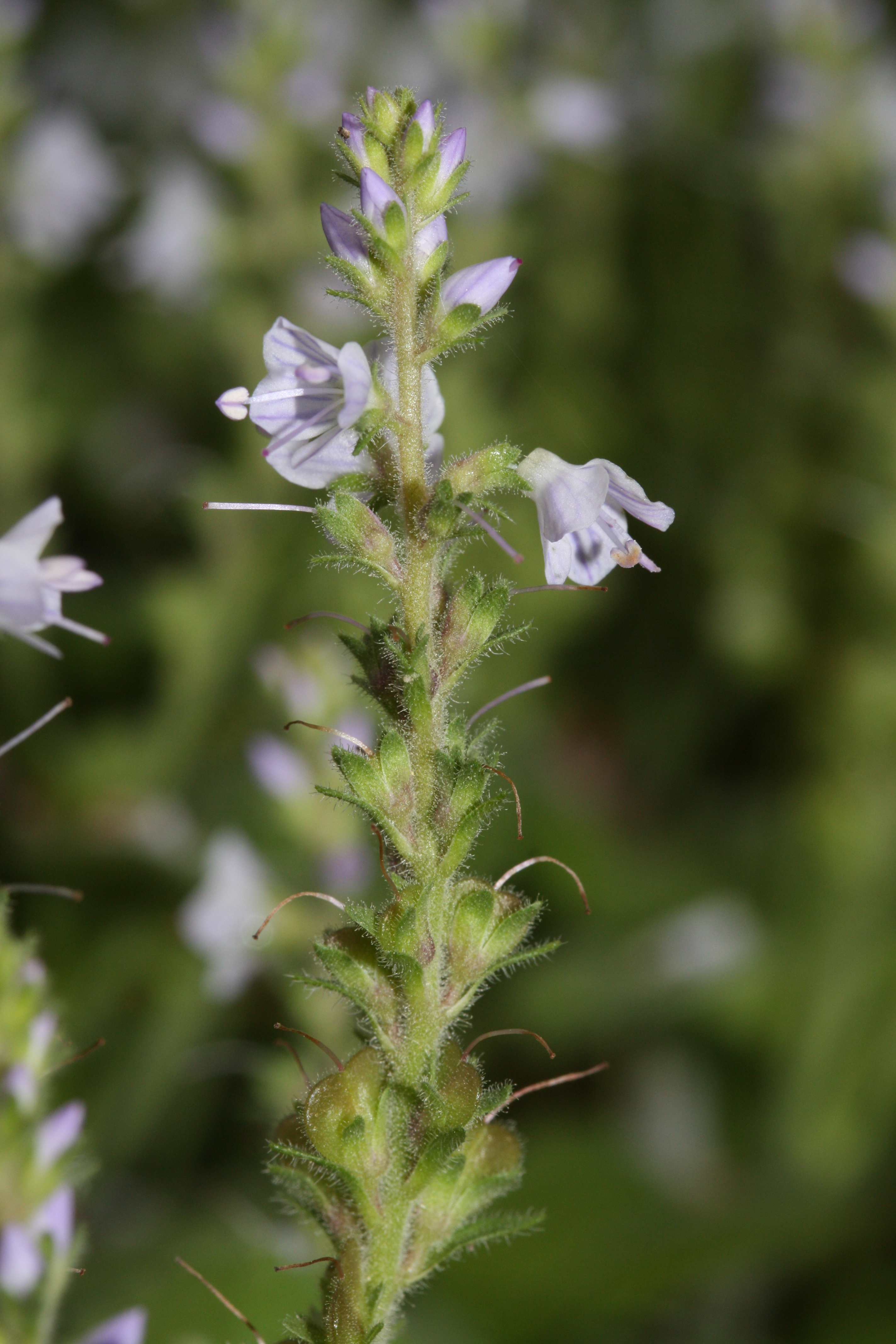 Common Gypsyweed, Herbal Speedwell, Paul's Betony